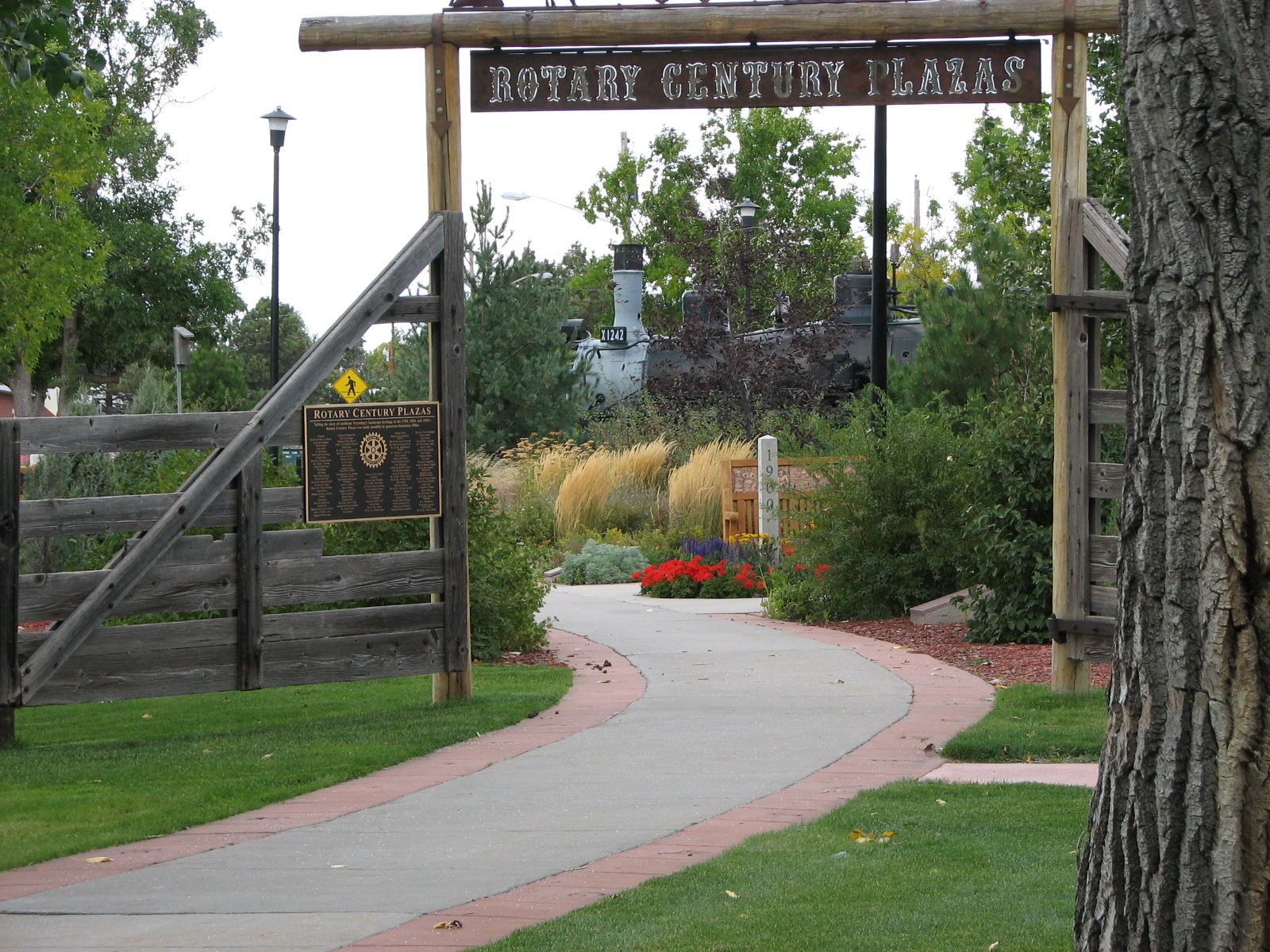 Author Shane Smith